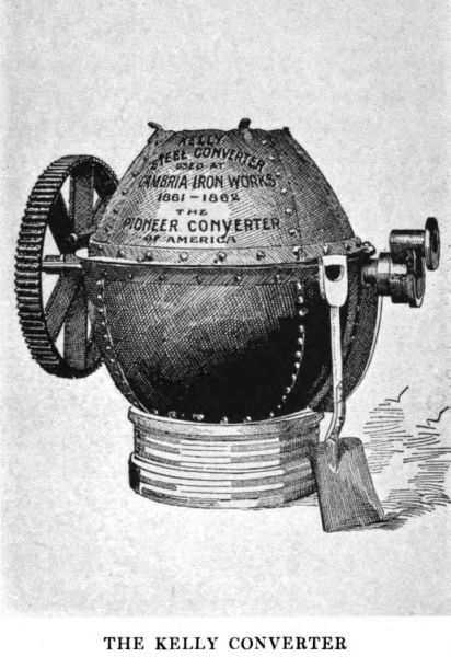 Converter built by William Kelly in 1861, for the Cambria Iron Company at Johnstown, Pennsylvania. It is his eighth converter, but his first one built with a riveted iron casing, and his first tilting converter.